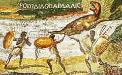 A section of the Nile Mosaic of Palestrina. Circa 100 BCE. Greek text reads KROKODILOPARDALIS, transliterated as Crocodile-Leopard.